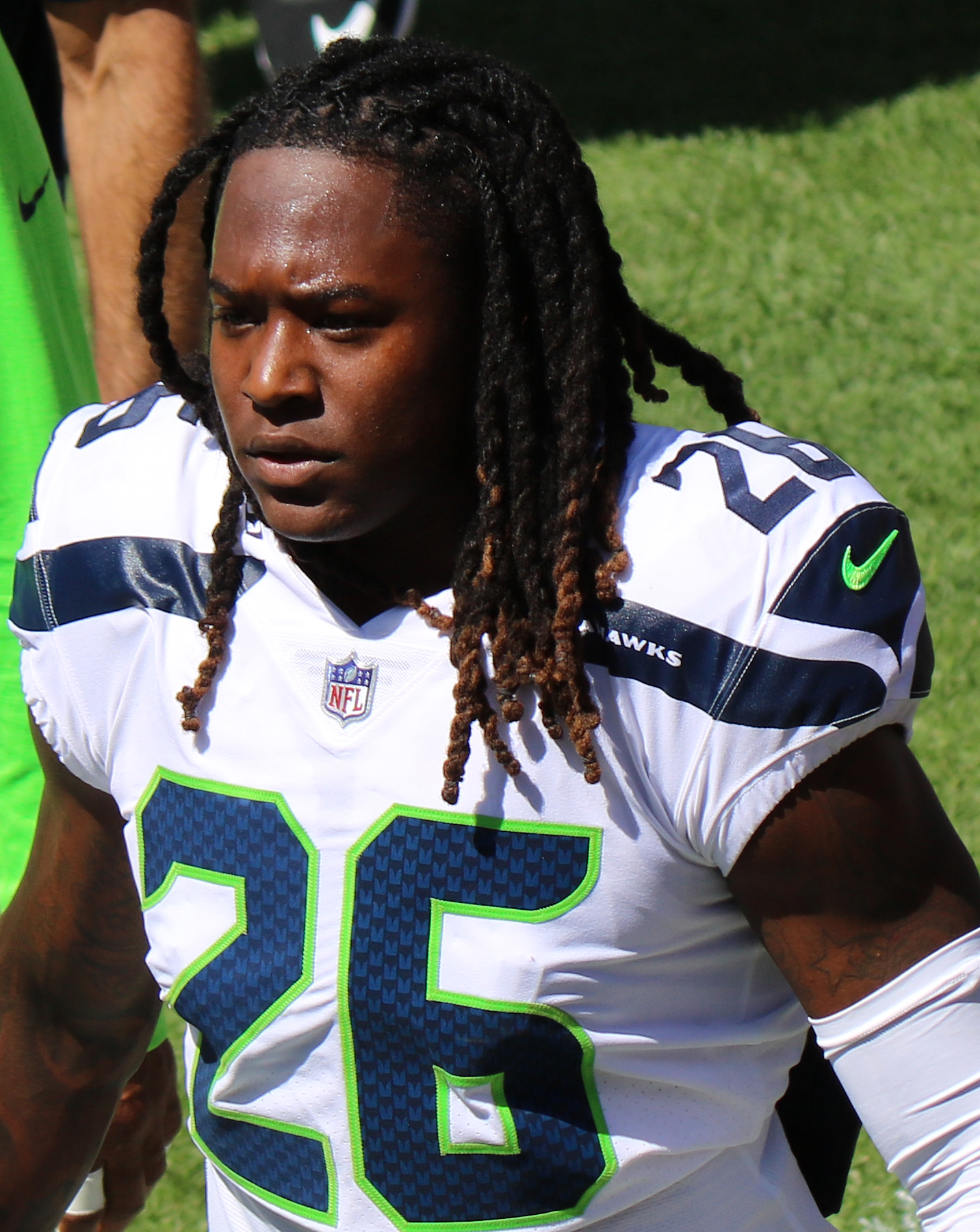 Shaquill Griffin, a National Football League player.